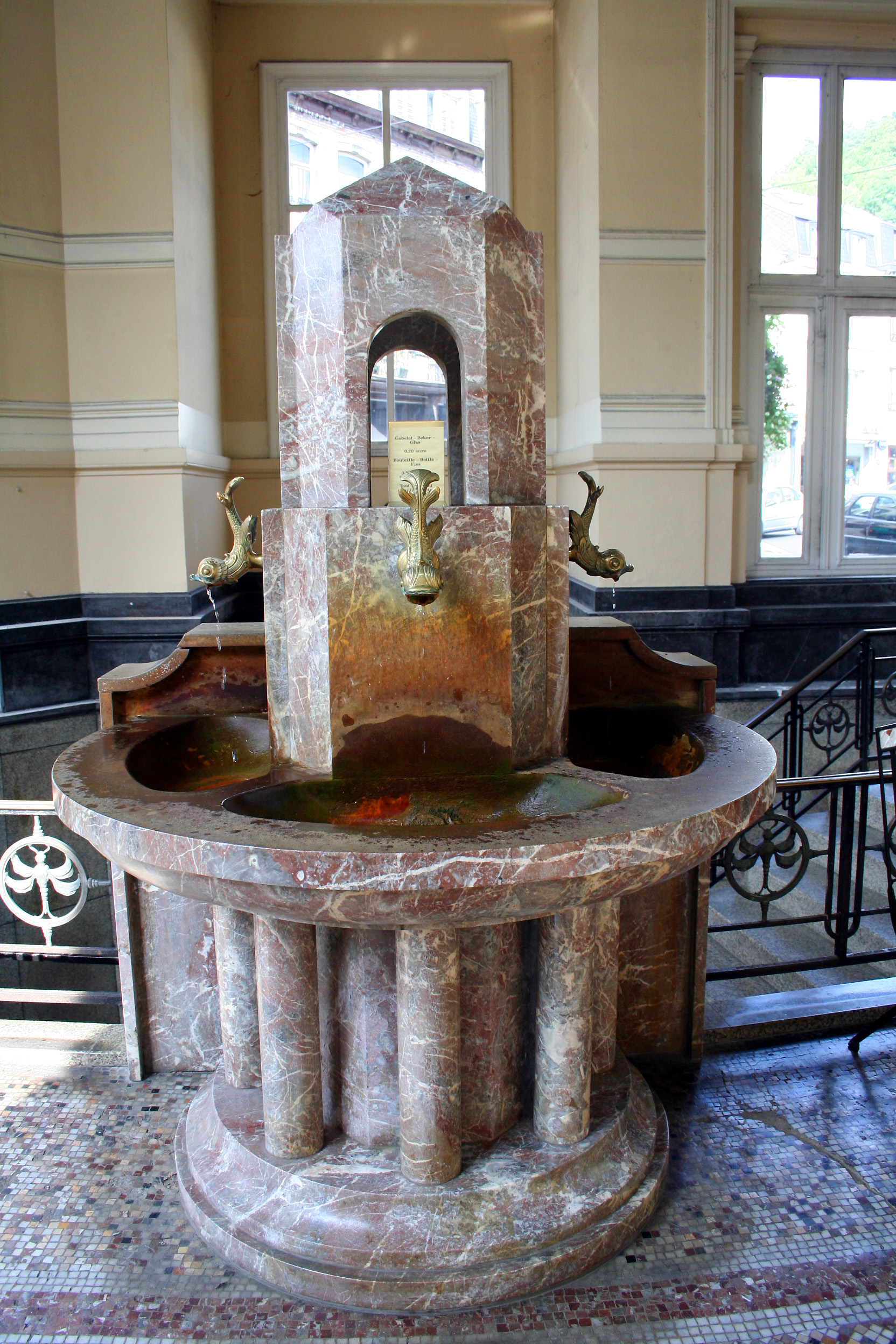 Spa (Belgium), internal fountains of the Tzar Peter the Great's « Pouhon » (spring).